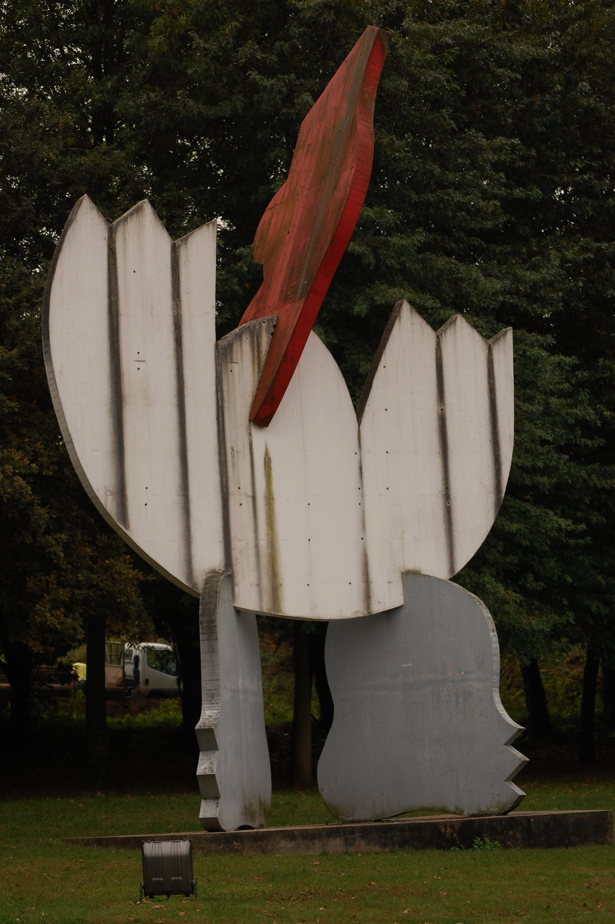 "The Devour of Cars, one sculture by José de Guimarães in Azurém Campus, Guimarães.